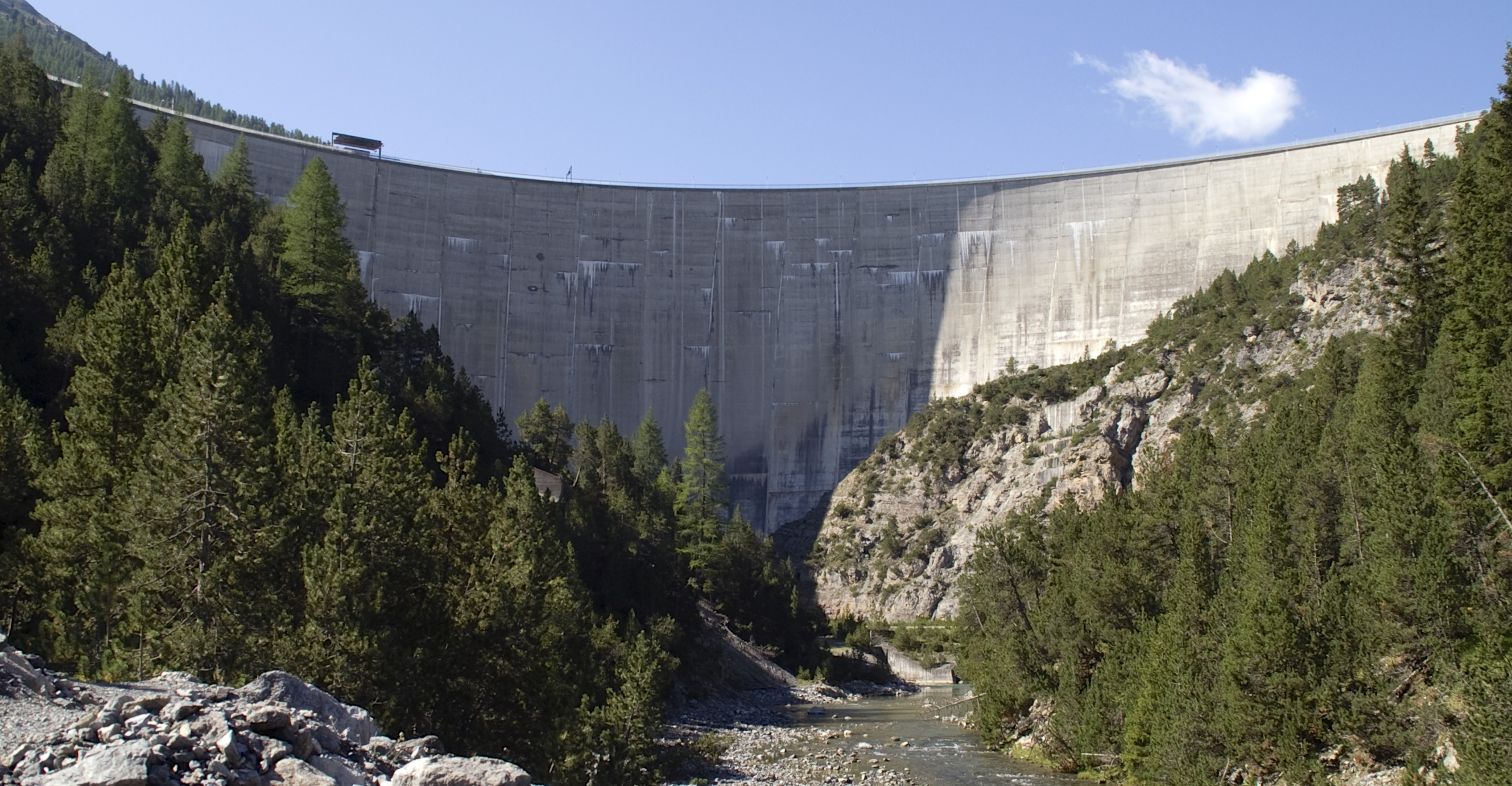 Dam Punt dall Gall, border between the Italian region of Lombardy and the Swiss canton of Grisons